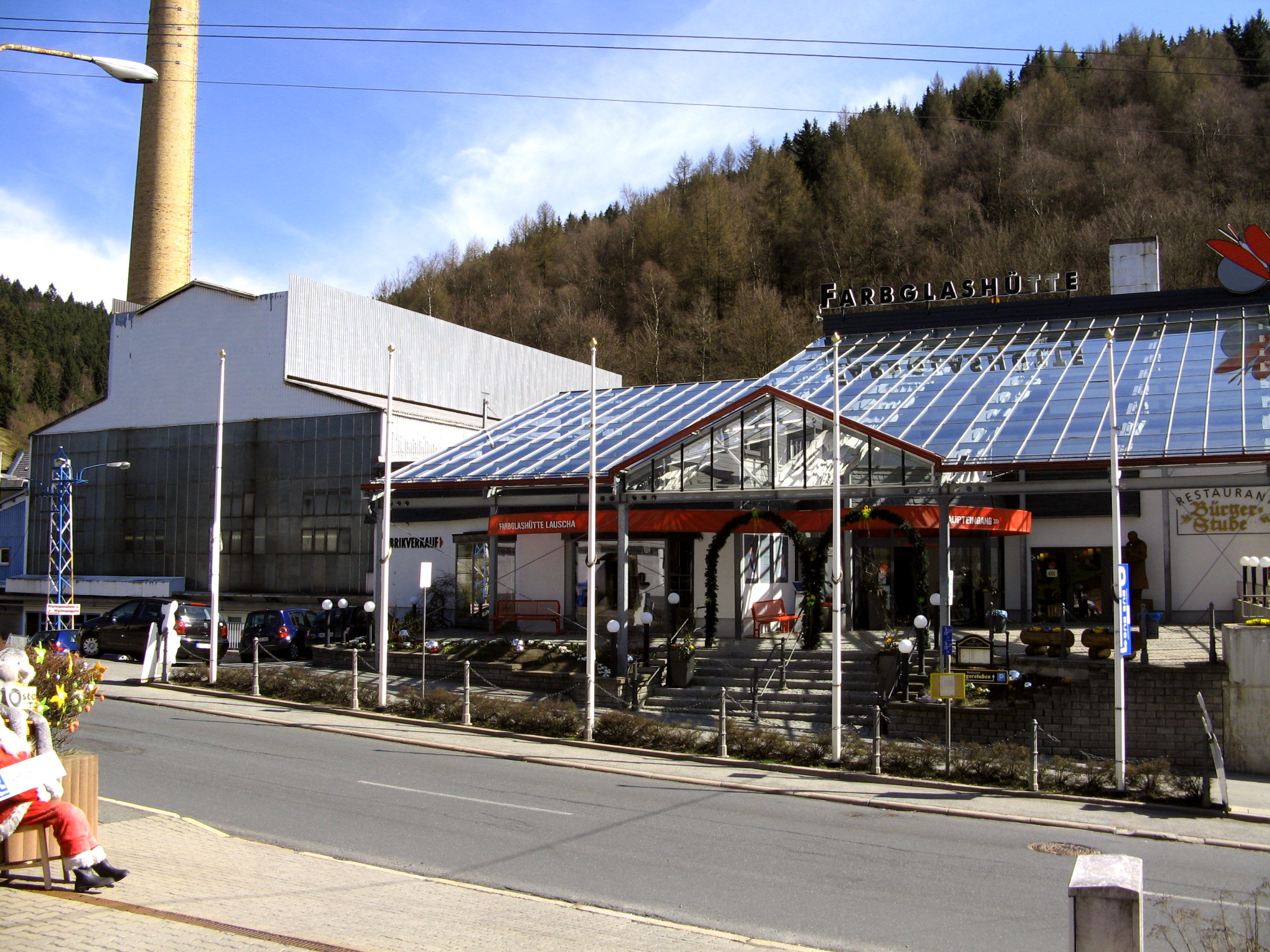 Farbglashütte Lauscha - Lauscha, Thuringia, Germany